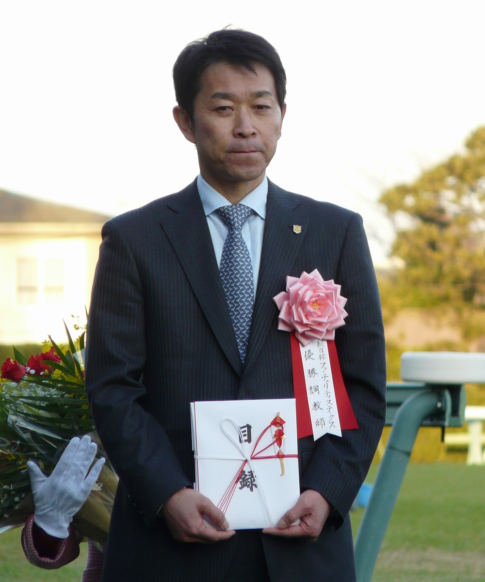 Takahisa-Tezuka20111218